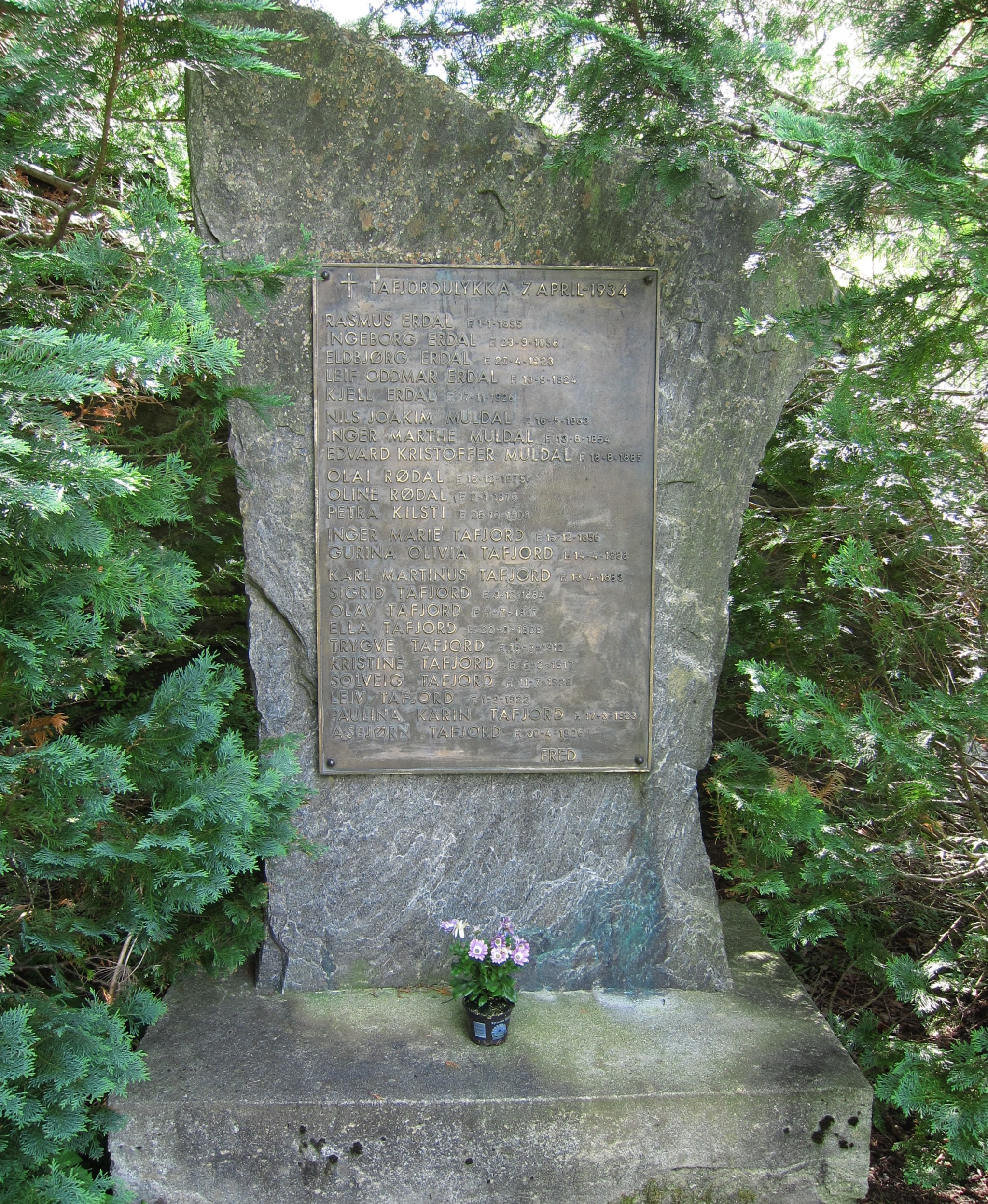 Tafjord landslide memorial, names of victimes